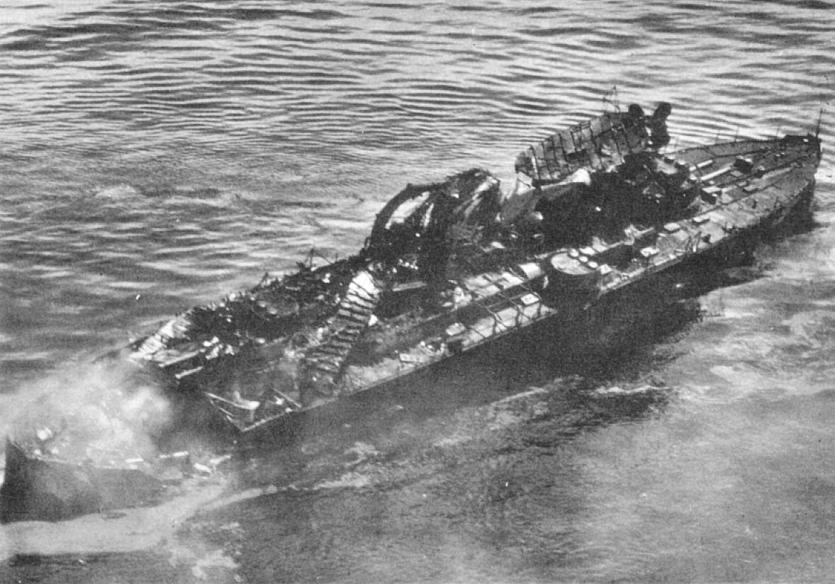 USS Virginia (BB-13) wreckage after aerial bombing test by Martin NBS-1 bombers of the 2d Bombardment Group September 1923